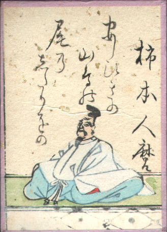 A portrait of Kakinomoto no Hitomaro; illustration from an uta-garuta playing card for Hyakunin Isshu, created in the Edo period.